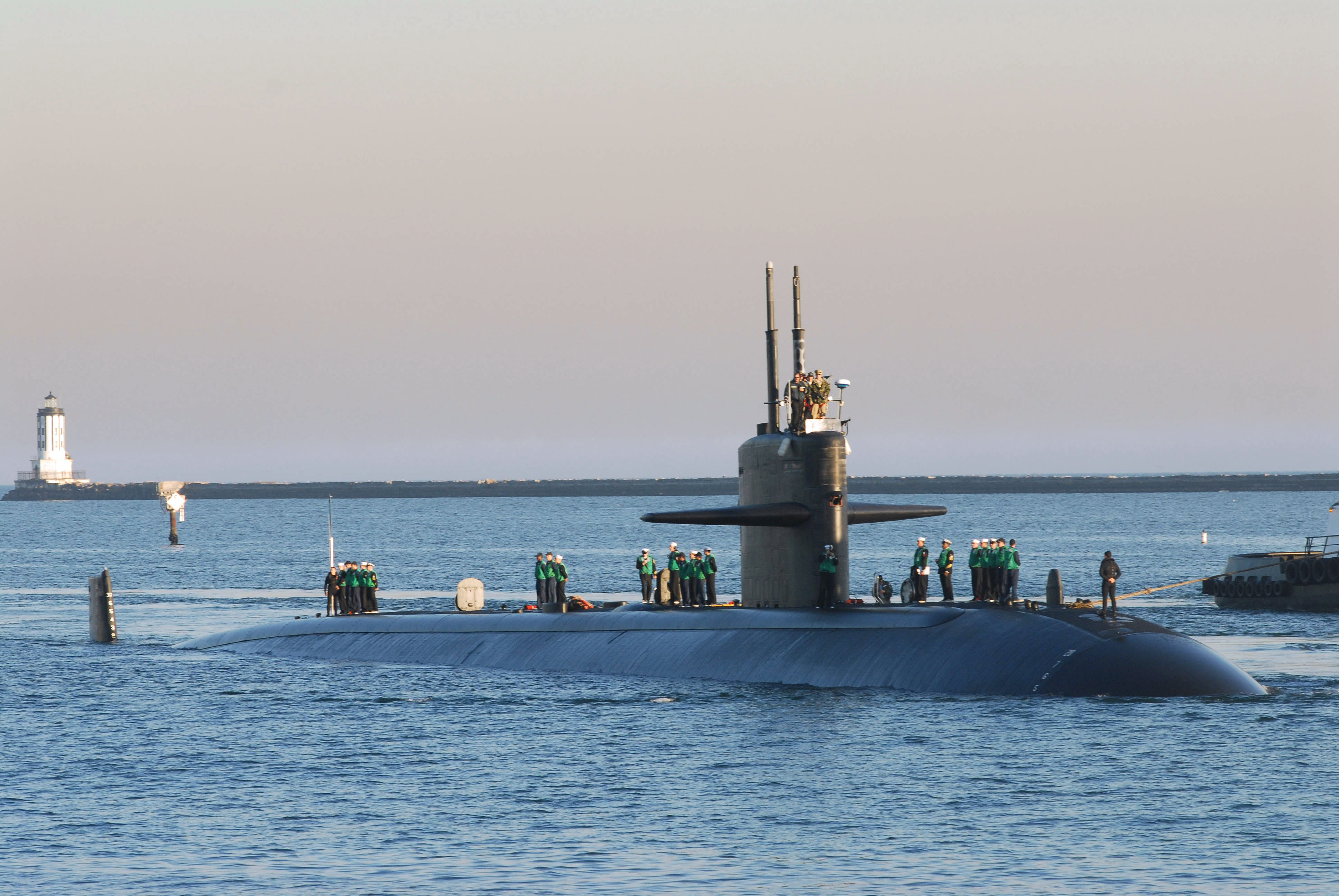 San Pedro, Calif. (Dec. 7, 2006) - The Fast attack submarine USS Los Angeles (SSN 688) pulls into the Port of Los Angeles for a namesake city visit. This is the first port call the Los Angeles has made to the city it was named after. U.S. Navy photo by Mass Communication Specialist 2nd Class Elizabeth Thompson (RELEASED) Los Angeles Lighthouse on the San Pedro Breakwater (far left).